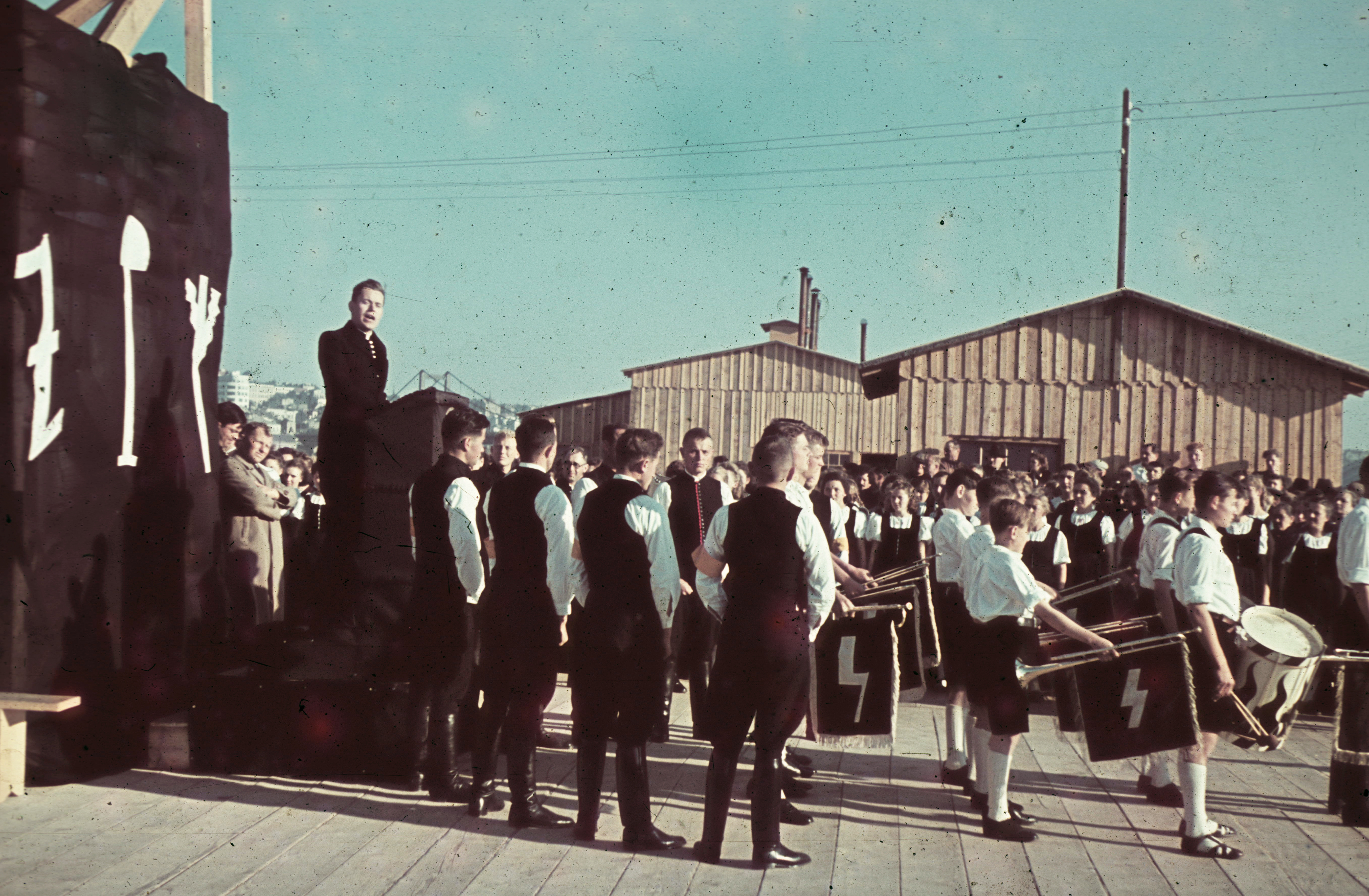 Resettlement of Bessarabian Germans. After the Red Army occupied the Bessarabia region, an agreement was reached between the Third Reich and the Soviet Union (then friends), on the resettlement of the local Germans into the Reich. Serbia, at that time also still friends with Germany, helped out and formed a temporary shelter for the refugees. In the photo, the chairman of the Danube Swabian German Cultural Association (Schwäbisch-Deutschen Kulturbundes), Dr. Sepp Janko, delivers a speech to his fellow nationals in a refugee camp near Zemun. Behind him are the typical Germanic pagan symbols: the Wolfsangel ("freedom") and the Man rune ("life"), and a shovel ("labour") between them. Standing in front are the local ethnic Germans, and their boys in uniforms and with instruments in style of the Hitler Youth. Upon their arrival in the Reich, the refugees will be subjected to the political control, employed mainly as hard labourers, and the able-bodied men will be recruited and sent to war. Two years later, Dr. Janko and his men too will put on the uniforms of the German Army, and set off to war – against Yugoslavs. Location: Serbia, Belgrade Tags: refugee, colorful Title: a Besszarábiából menekített német nemzetiségűek átmeneti tábora a Német küldöttség látogatásakor.